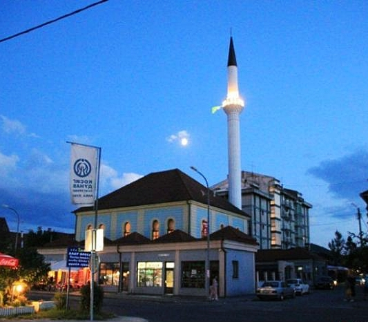 Čaršijska džamija in Novi Grad